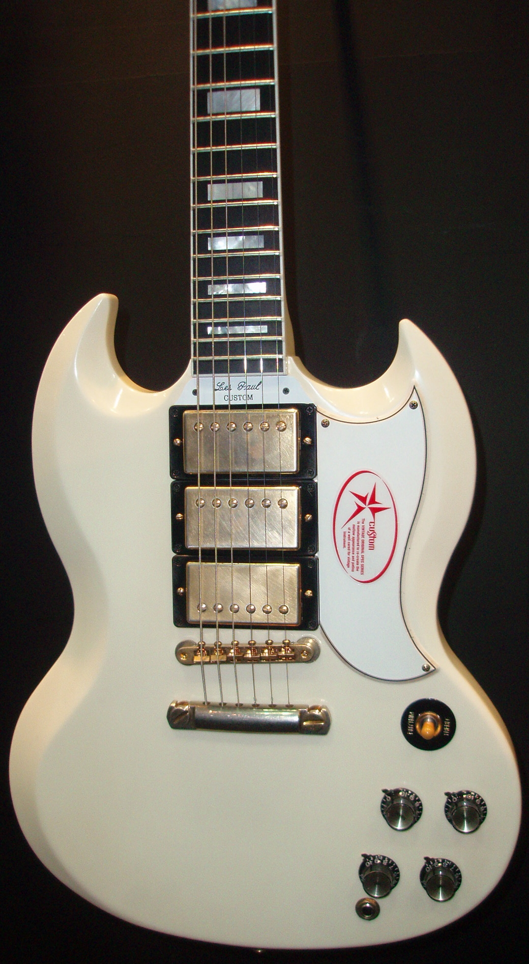 Gibson Les Paul SG Custom (in Instrumental Fair 2007) Fixed 3 Pickups.